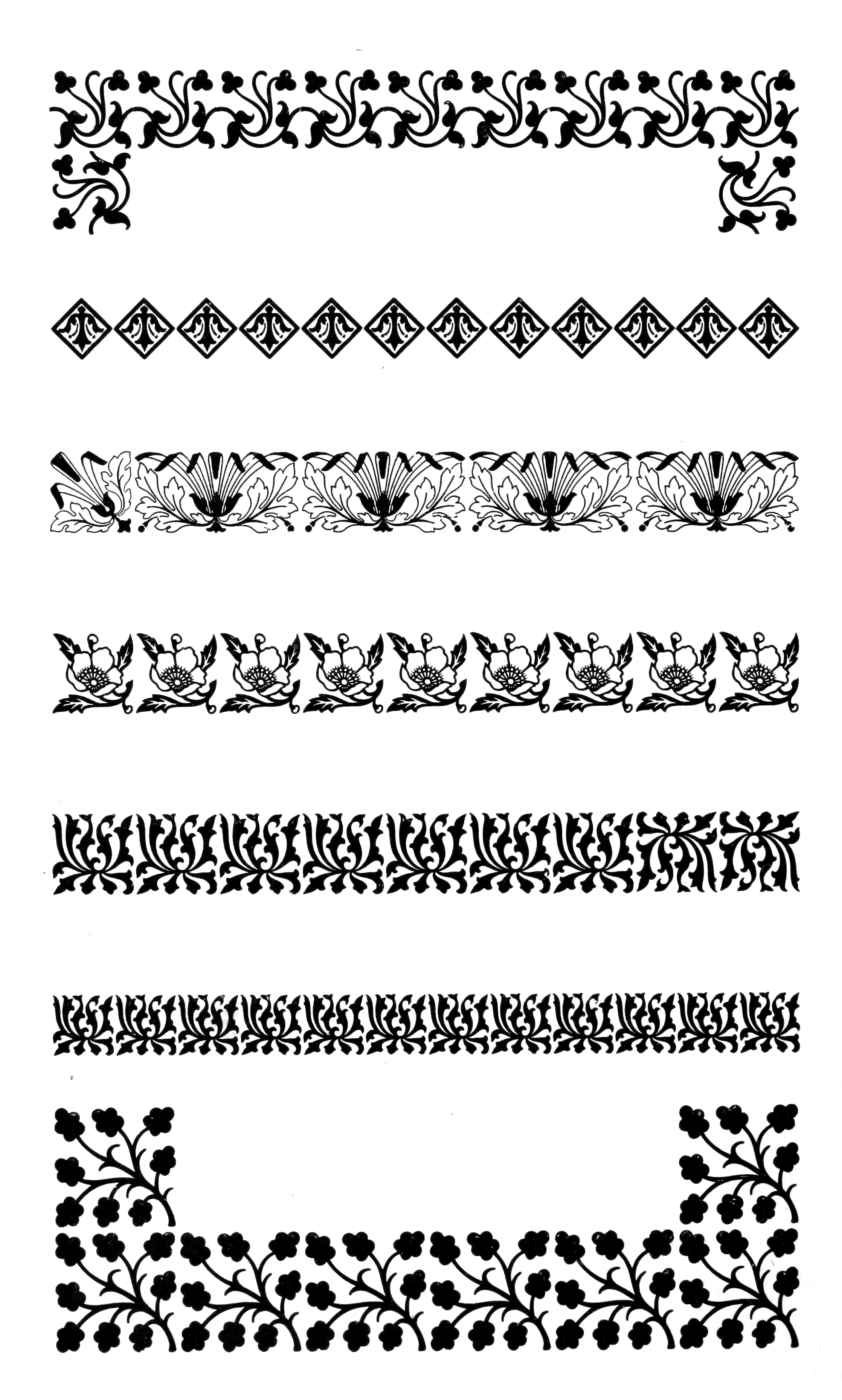 Engraved borders for printed media in an American Type Founders printing specimen book from 1897. Public domain image, out of copyright.